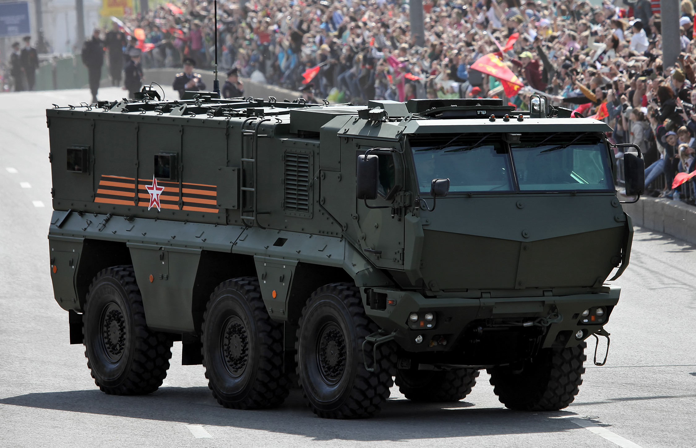 KAMAZ-63968 Typhoon-K MRAP vehicle (in the streets of Moscow on the way to or from the Red Square)